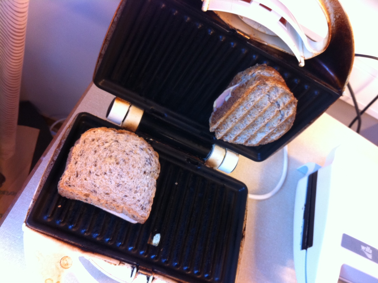 An opened toast iron with two ferris toast in it. One of them almost done, another just placed on the surface.